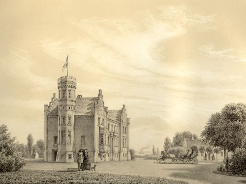 Krabbesholm at Skibby, Denmark